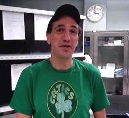 A single photo from a photoseries of Sam Lloyd during an interview on "Scrubs"